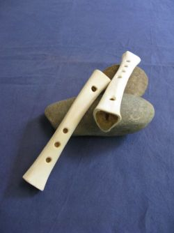 Bone flute .